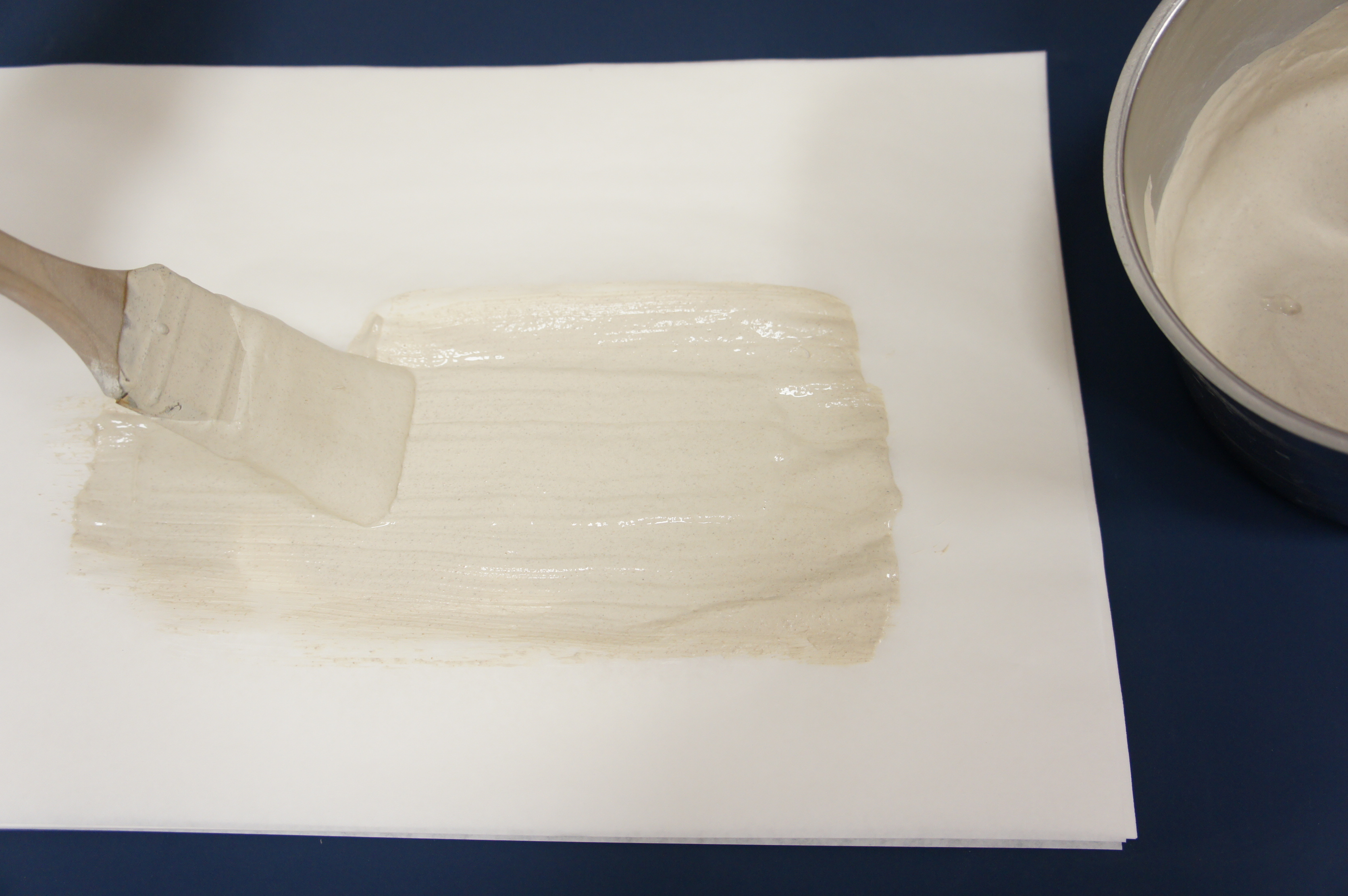 Munari mush applied with a brush on a greaseproof paper